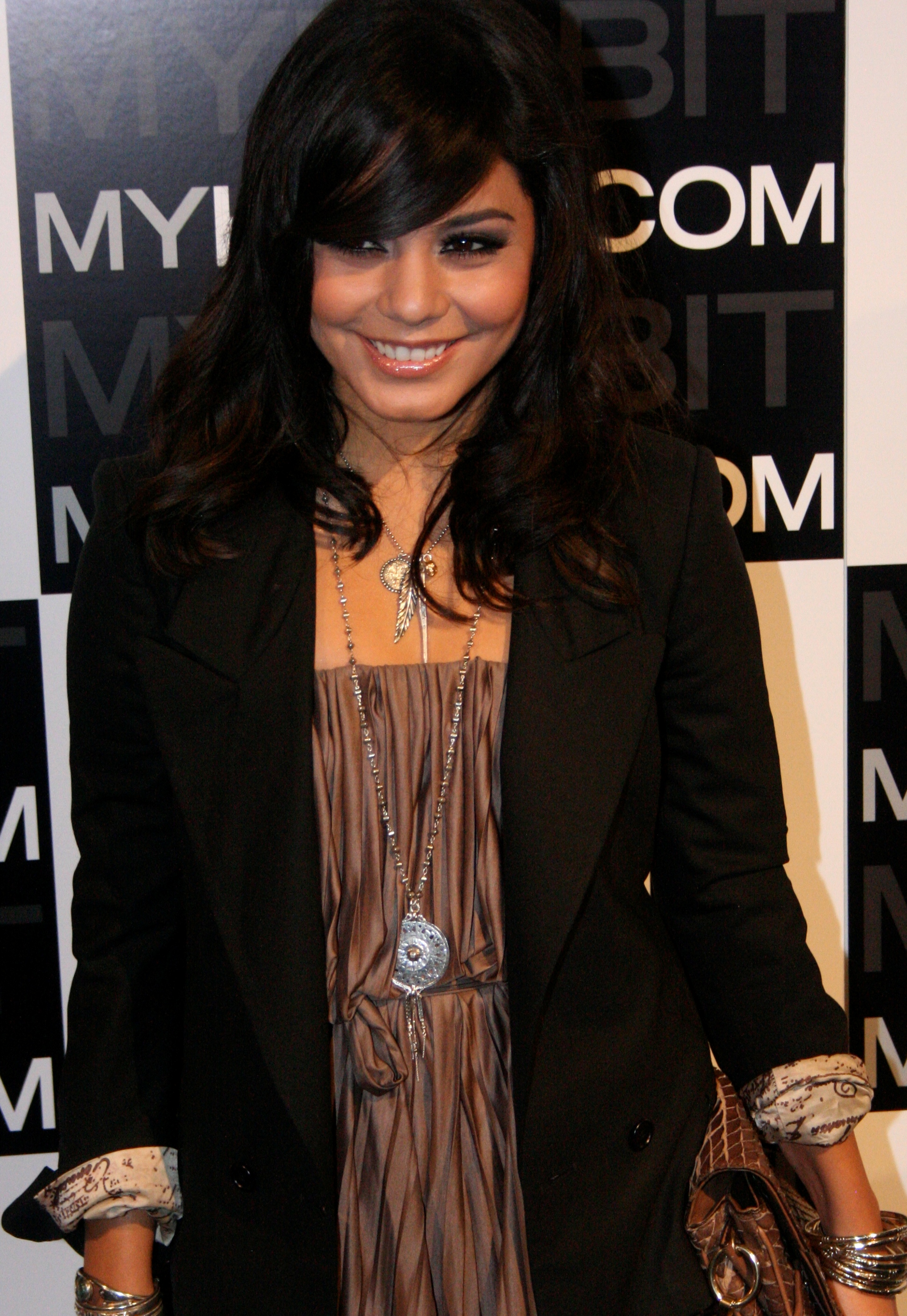 Vanessa Hudgens at the My Habit launch at Skylight West Studios in May 2011